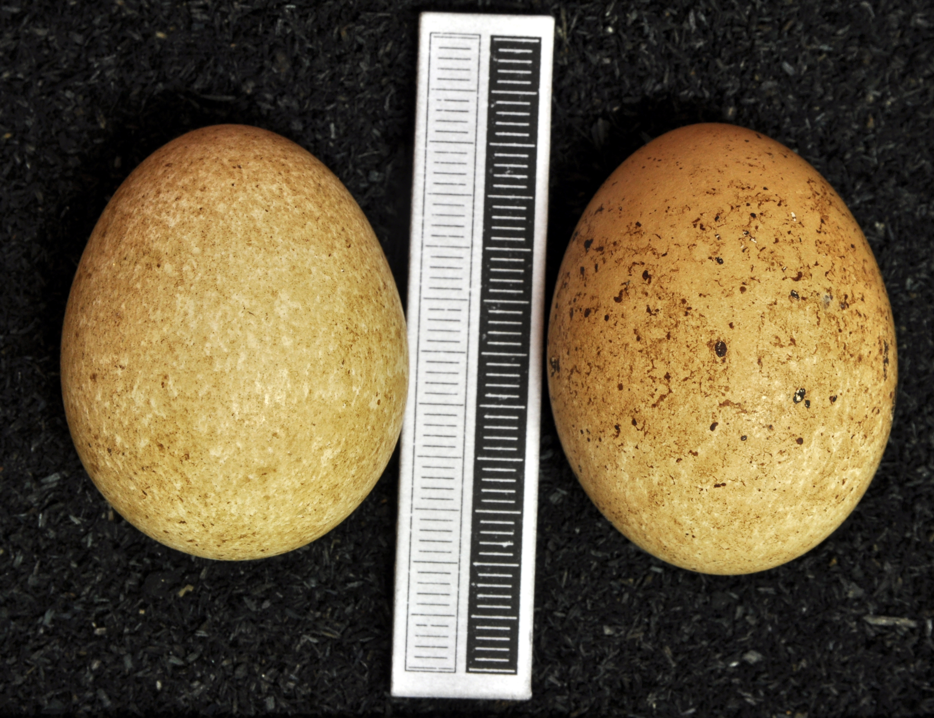 Eleonora's falcon Falco eleonorae , egg, Coll. Museum Wiesbaden